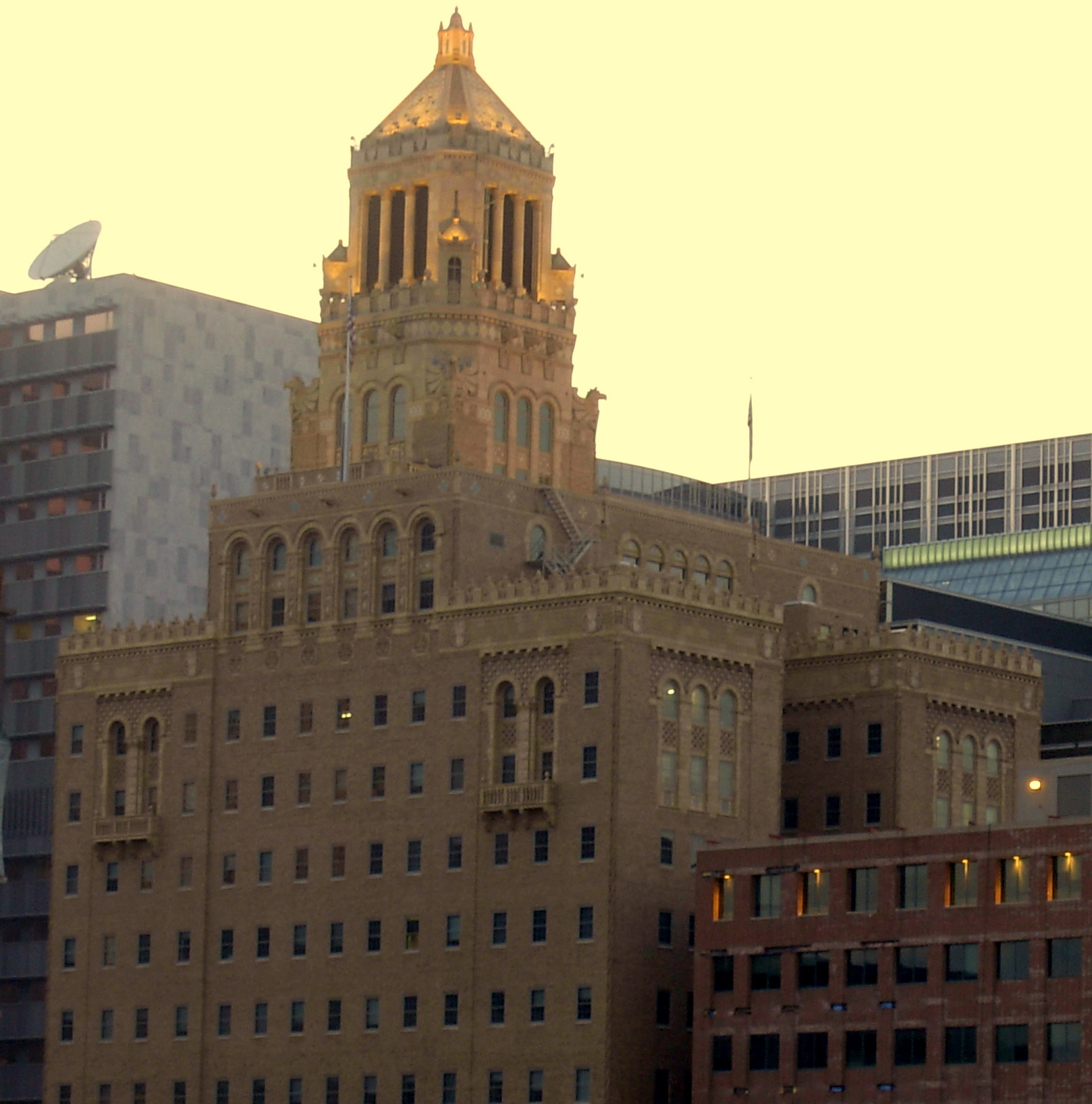 Mayo Clinic Plummer Building seen from the southeast on a downtown rooftop in Rochester, Minnesota